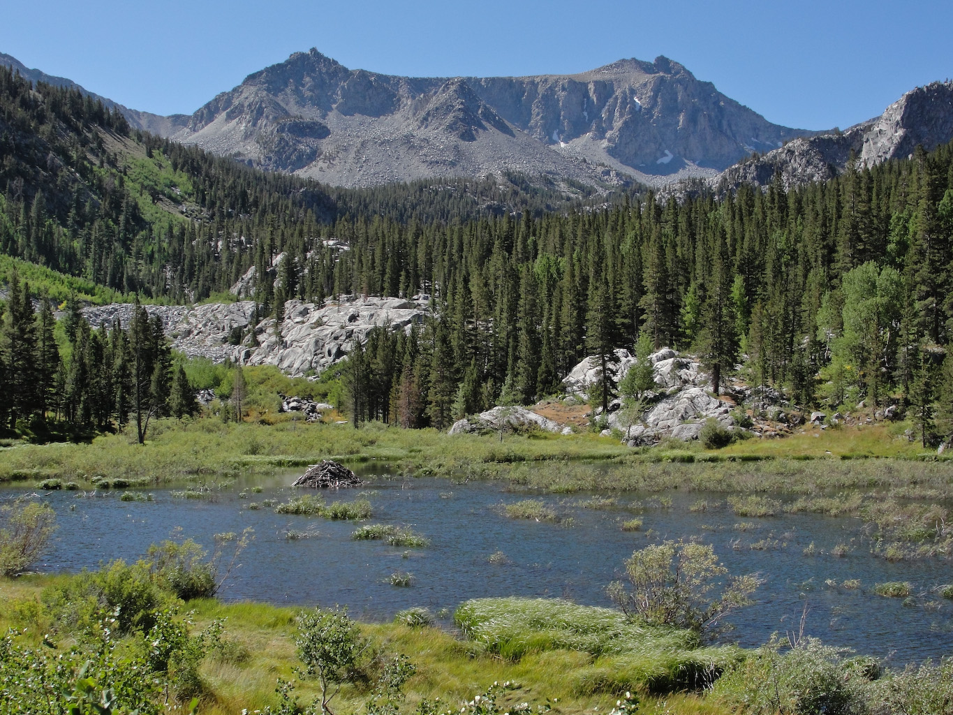 Beaver lodge on McGee Pass Trail, John Muir Wilderness, California